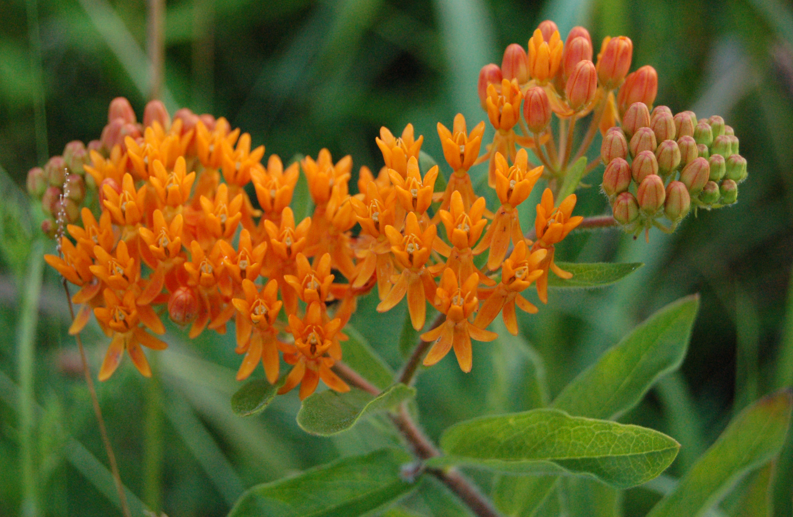 The entire blooming flower head of the Butterfly weed (Asclepias tuberosa) plant. Photo taken in Chester County, Pennsylvania. Photo was a handheld shot.